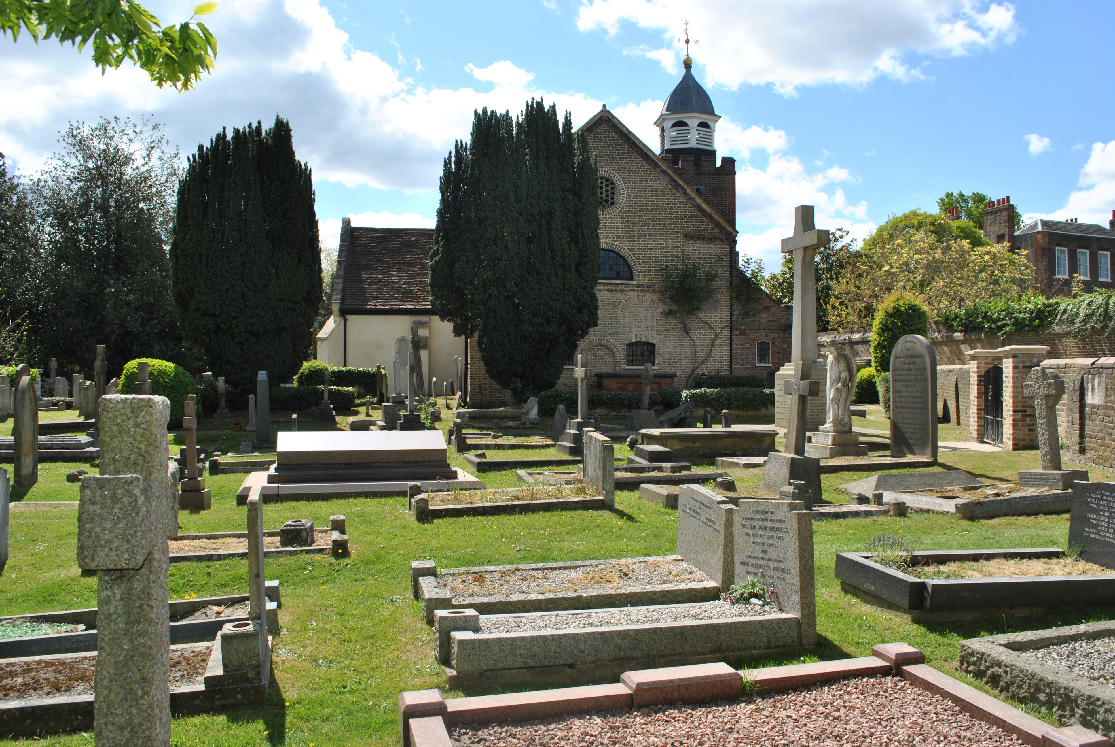 St. Peter's Churchyard, Petersham, 2017, Originally published in Queer Places, Vol. 2.1: Retracing the Steps of LGBTQ people around the World